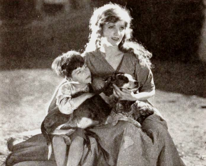 Still from the American film Judy of Rogue's Harbor (1920) with Mary Miles Minter, Frankie Lee, and a dog, on page 48 of the February 14, 1920 Exhibitors Herald.